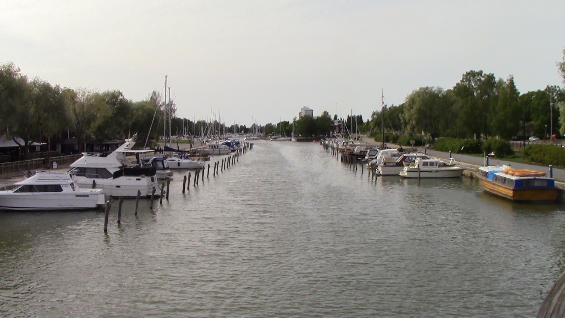 Canal in Uusikaupunki, Finland. The picture's been taken from Siltakatu bridge.